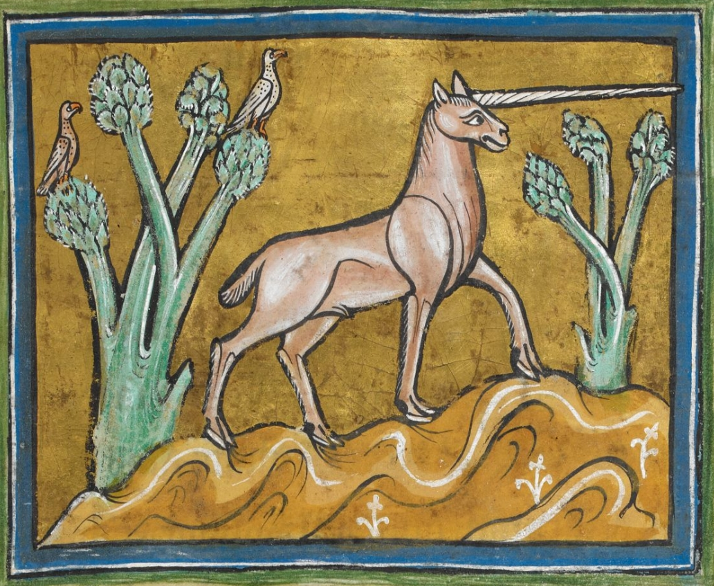 Folio 21r from a 13th century Bestiary, The Rochester Bestiary (British Library, Royal MS 12 F XIII), showing the Monoceros. Made for a librarian in Rochester.